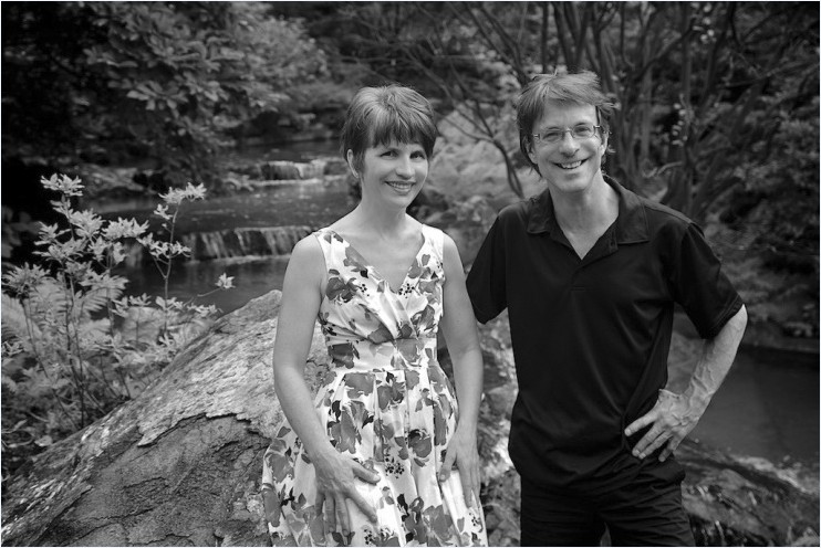 Duo Caron